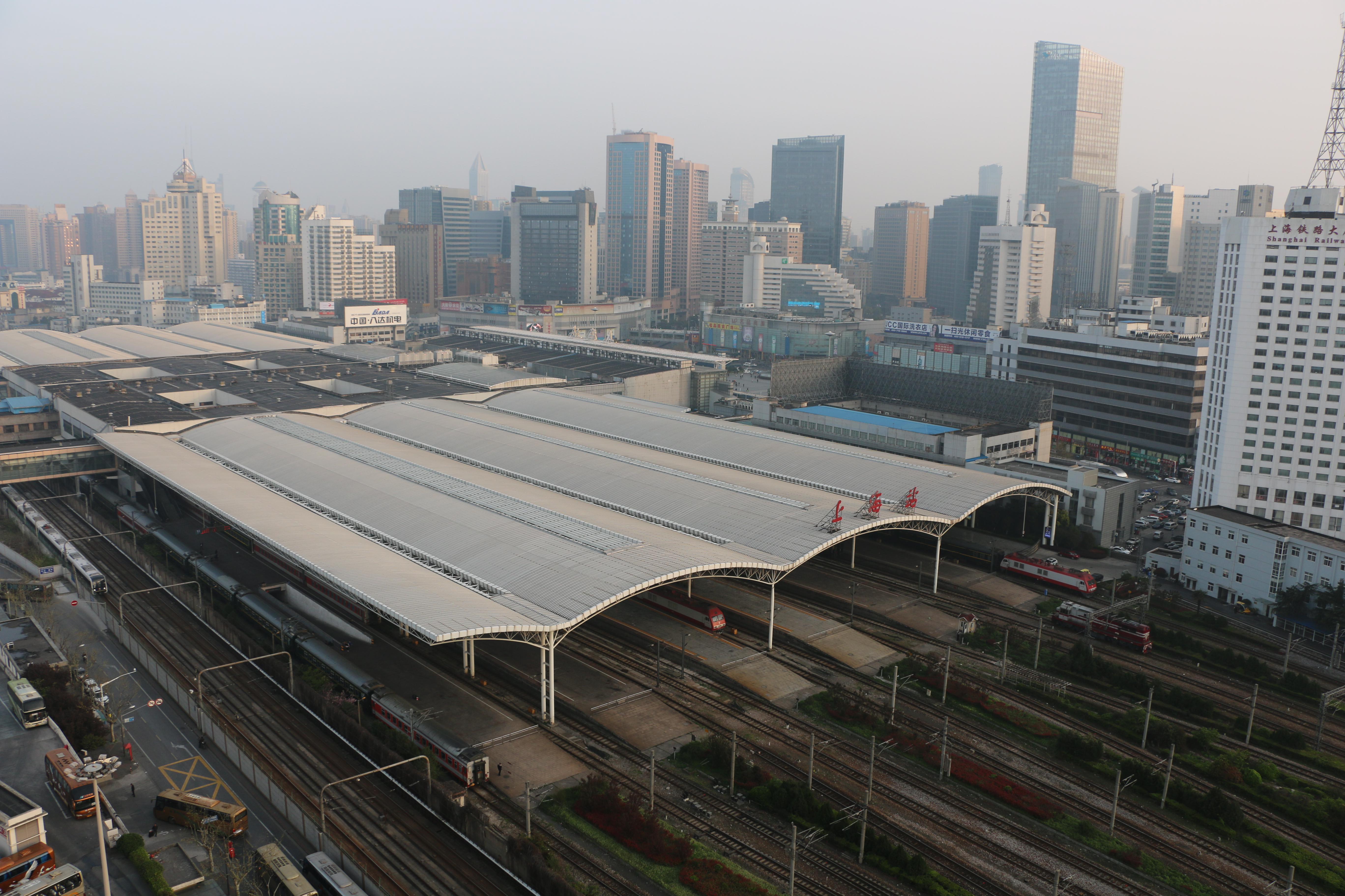 201604 Tracks at Shanghai Railway Station